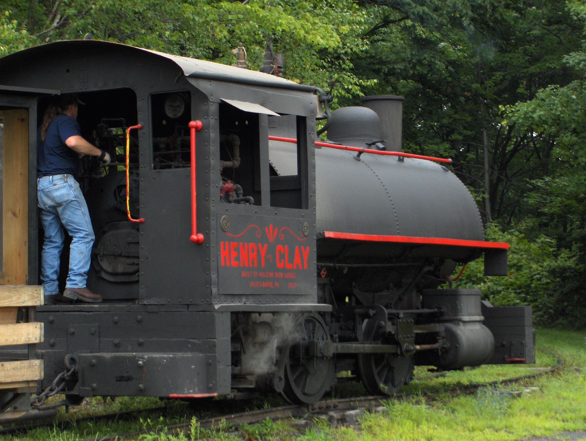 Lokie Steam Train - probably part of the Ashland Coal Mine Tour, in Ashland Pennsylvania